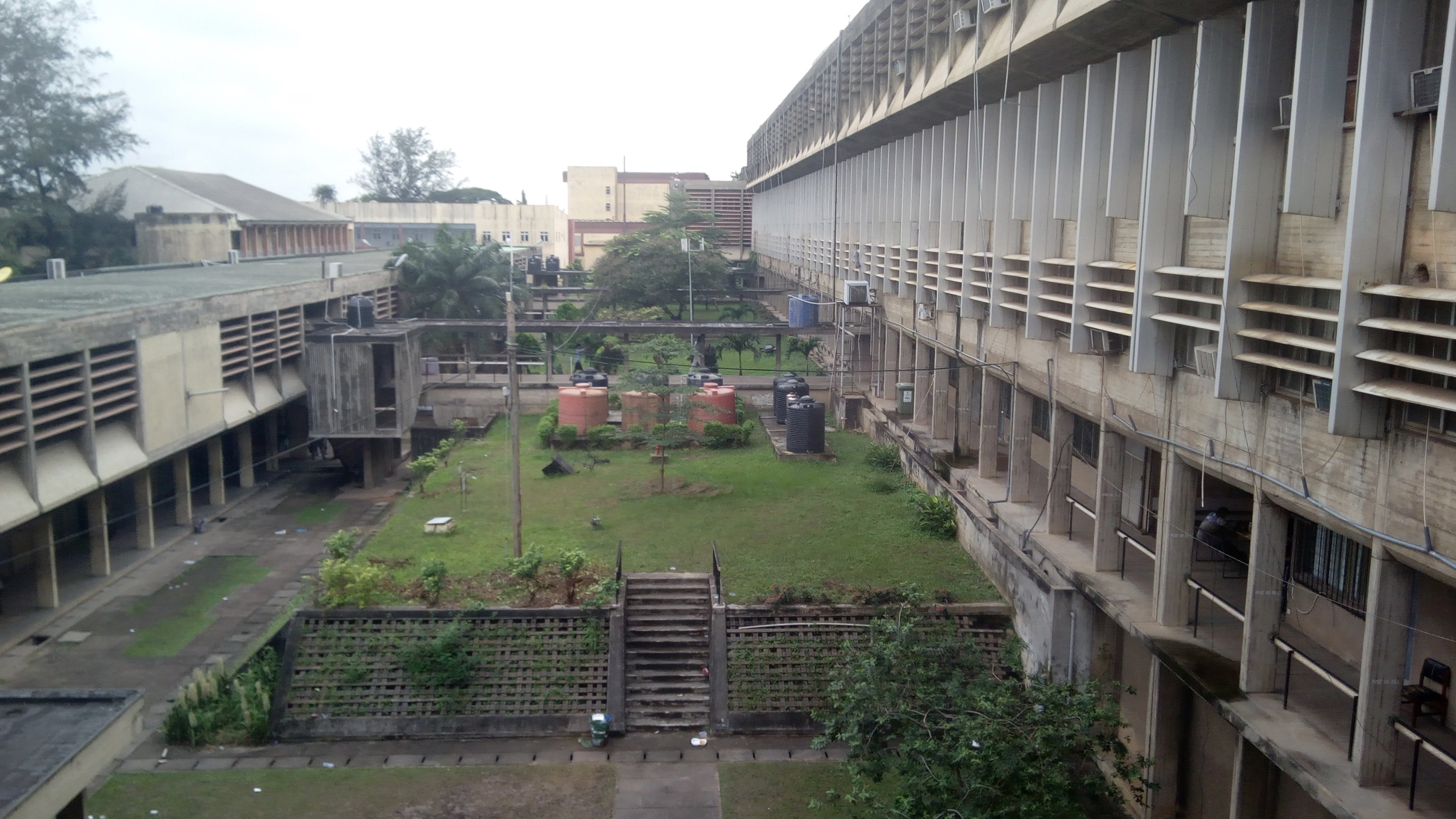 The Faculty of Science, University of Lagos This is an image of "African people at work" from Nigeria